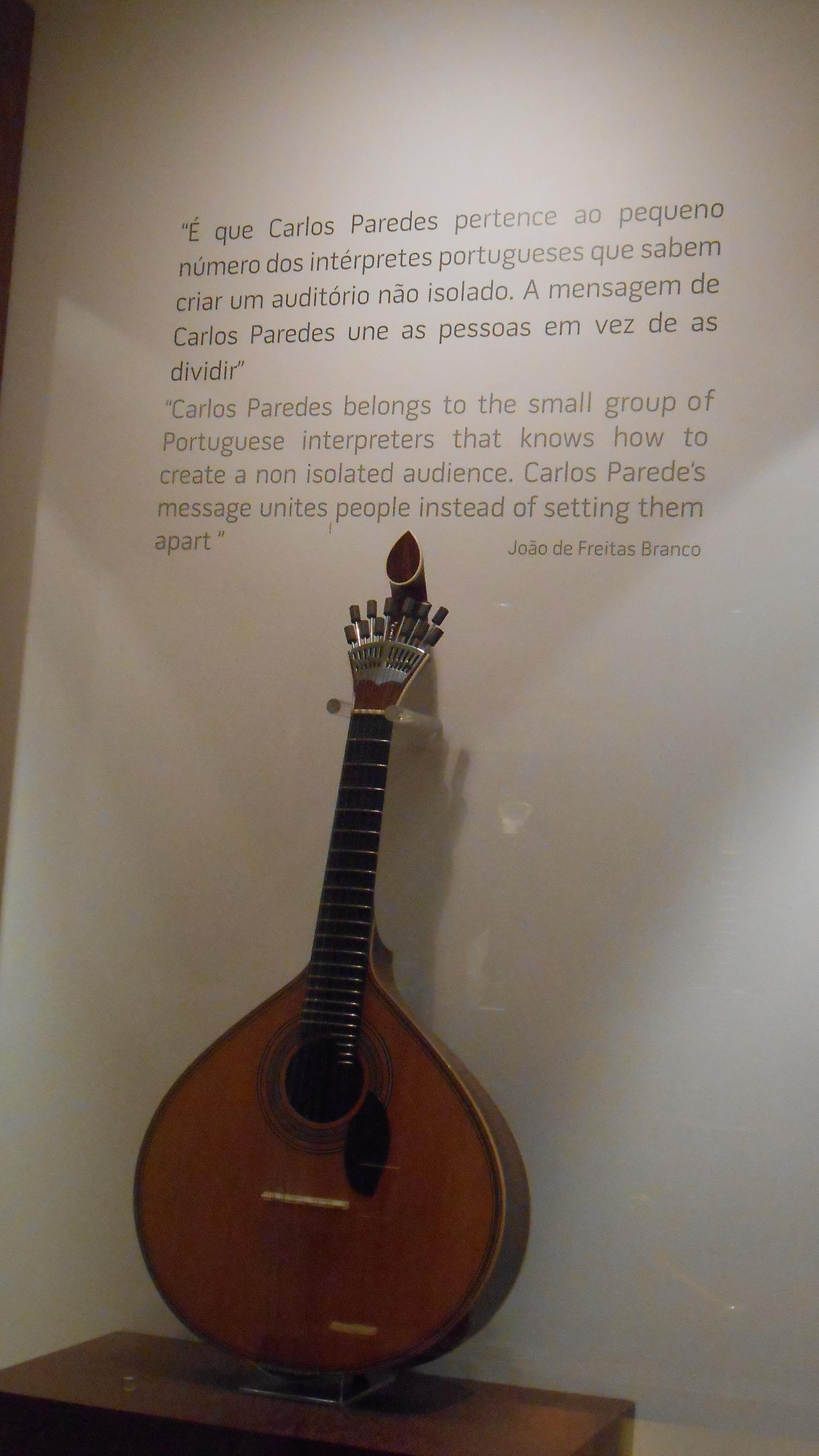 In the Fado museum in Lisbon (march 2014): portuguese guitar of Carlos Paredes.